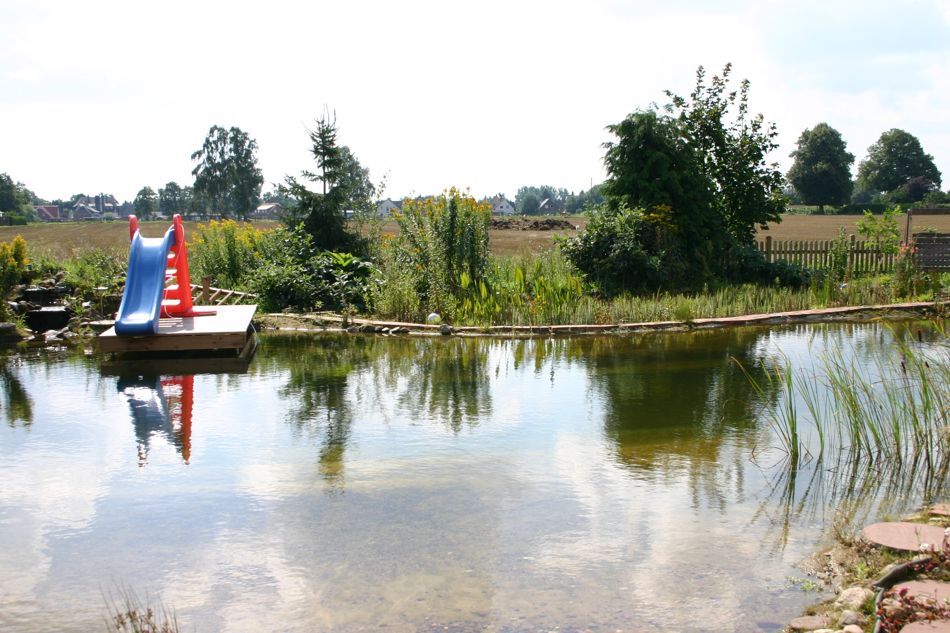 A typical swimming pond in summer